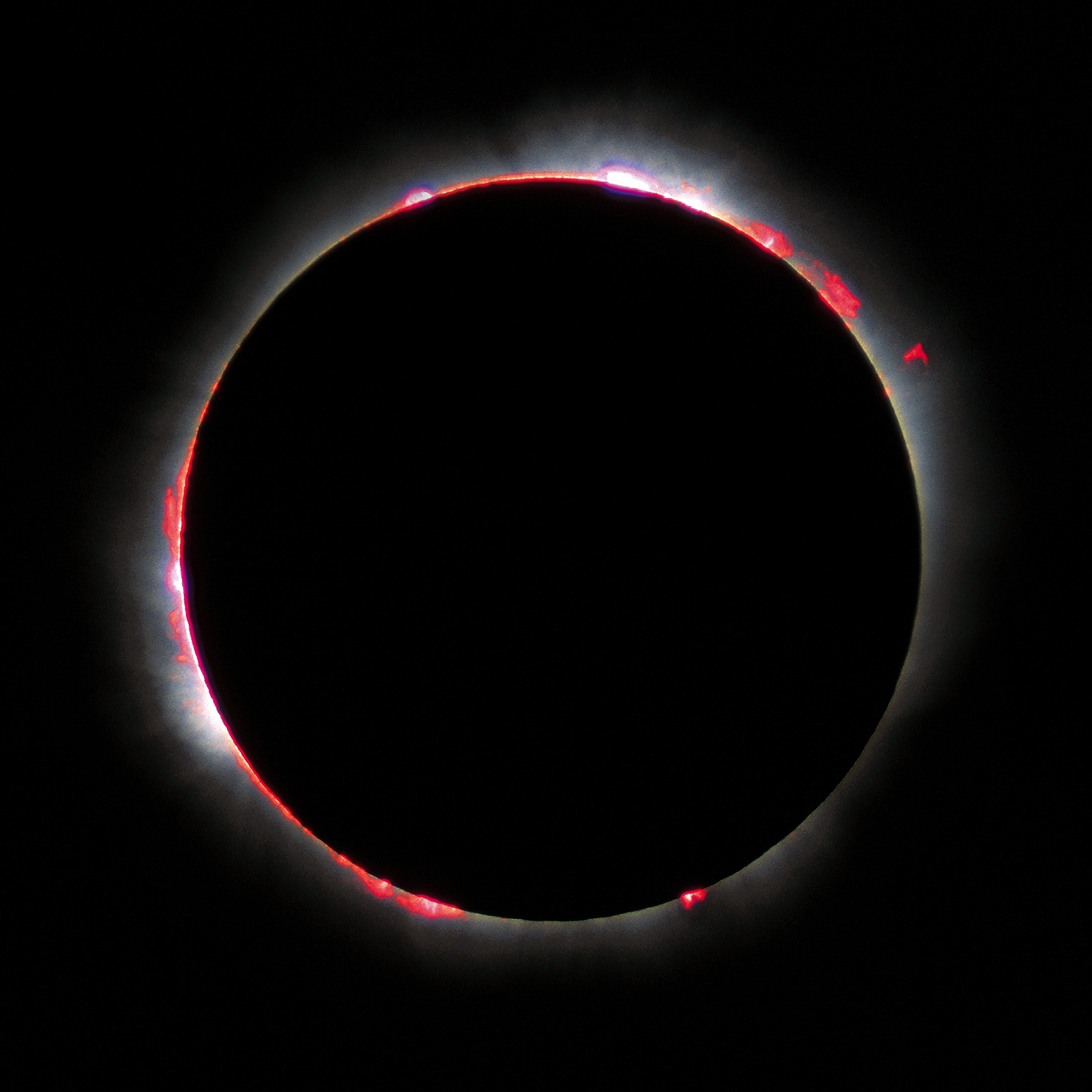 Total Solar eclipse 1999 in France.